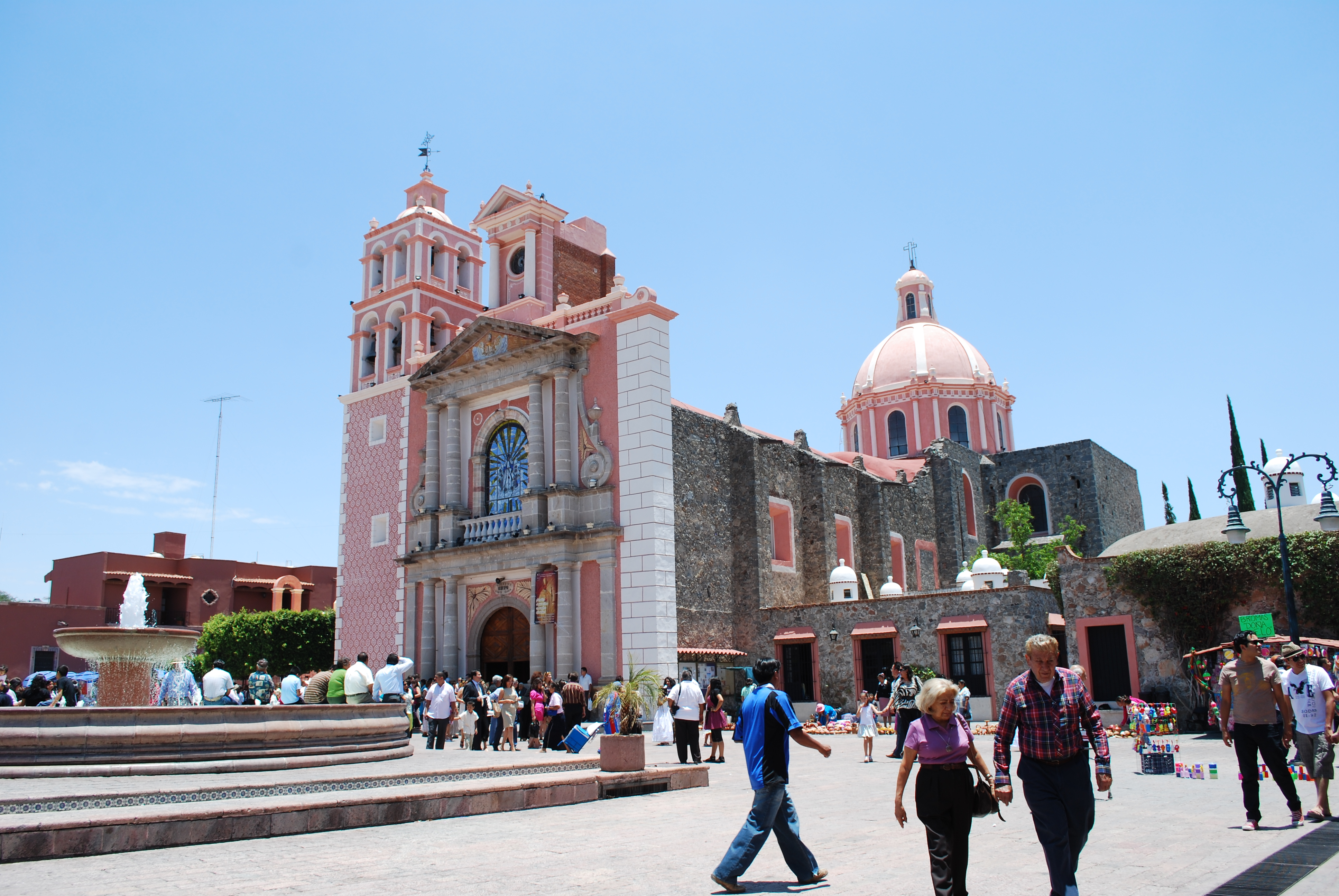 Temple of Santa María in Tequisquiapan, Queretaro